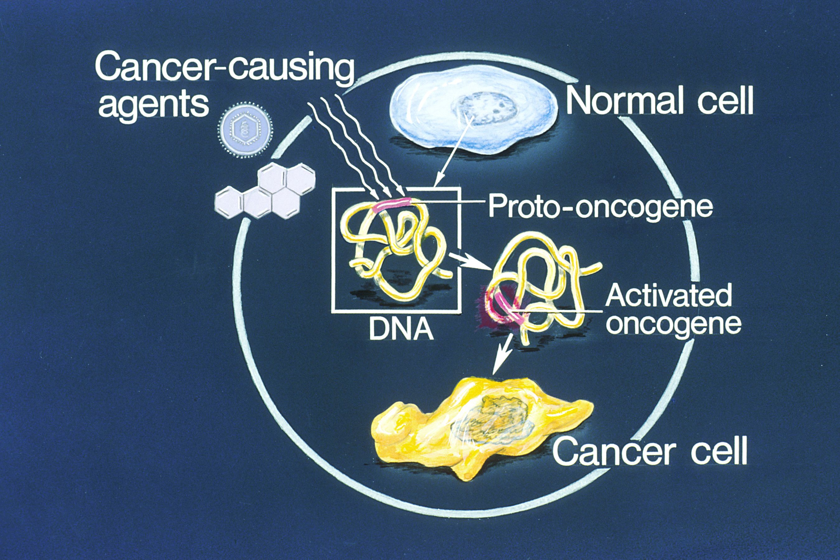 Title Oncogenes Illustration Description This graphic illustrates the stages of how a normal cell is converted to a cancer cell, when an oncogene becomes activated. Topics/Categories Cells or Tissue, Abnormal Cells or Tissue Historical, Graphics Type Color, Photo Source National Cancer Institute